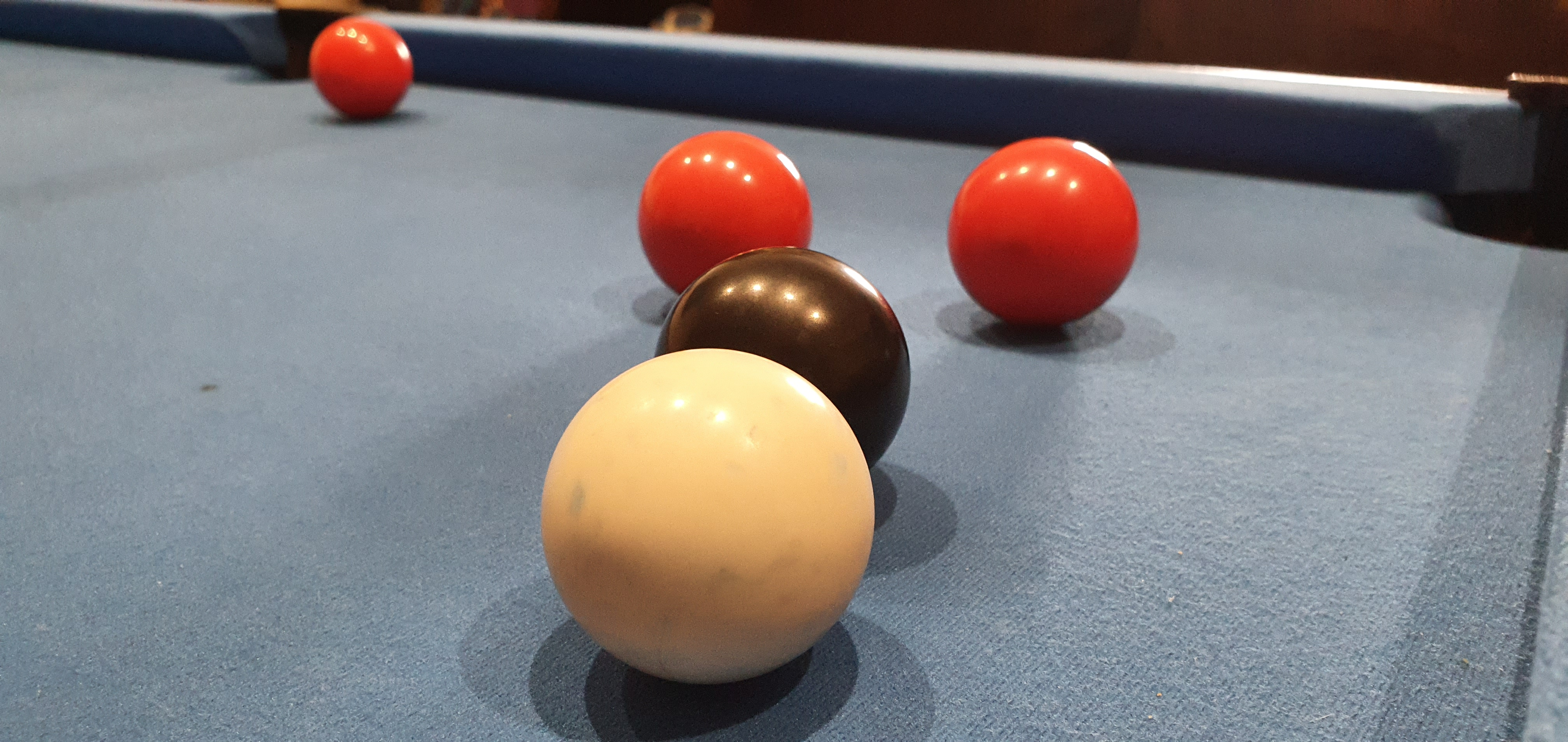 Snookered. If red balls are target balls, black ball don't allow the direct access to red balls.